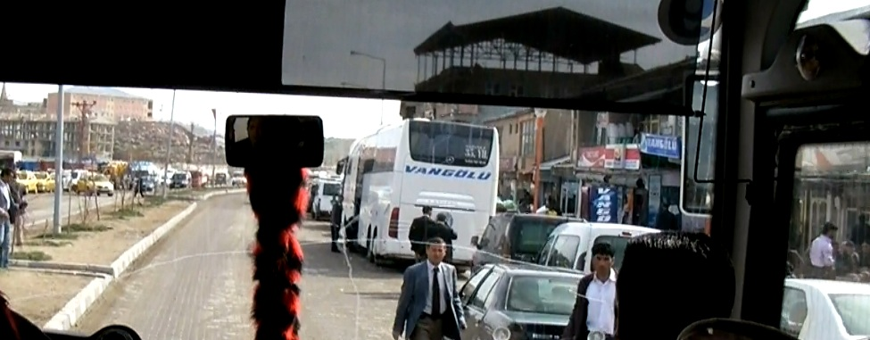 Partial screen grab from a video I took from inside a dolmuş travelling eastbound shortly before noon through Çaldıran, Turkey (near Iran). Altitude 2053 meters.